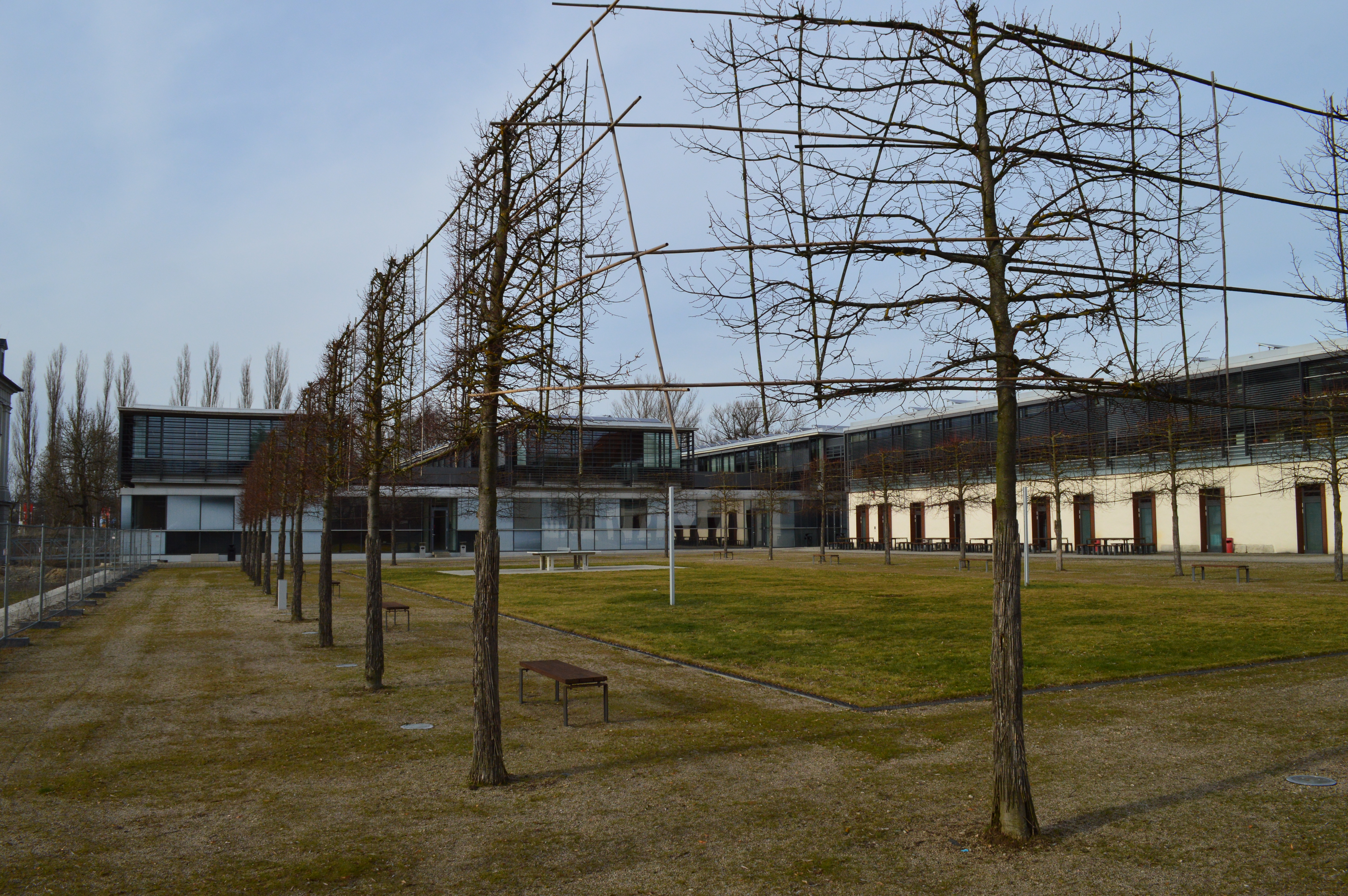 Former Tinz Castle and Berufsakademie (Academy of Cooperative Education) in Gera, Germany, in March 2016; after renovation of the castle's facades